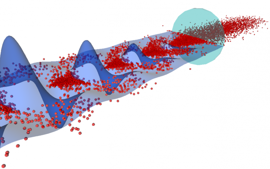 Simulation of the interaction between the bunches of protons (red dots) and the plasma wakefield (blue waves).